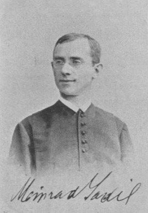 Meinrad Sadil (1864-1943), Austrian teacher and writer